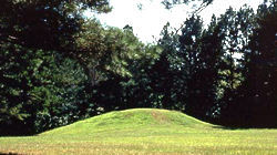 View of a mound at the Bynum Mound and Village Site, located at mile 232.4 on the Natchez Trace Parkway east of Houston in Chickasaw County, Mississippi, United States. The complex of six burial mounds was in use during the Miller 1 and Miller 2 phases of the Miller culture and were built between 100 BCE and 100 CE. The site is listed on the National Register of Historic Places.